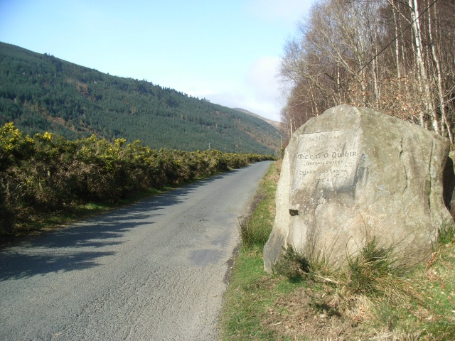 Memorial in Glenmalure, Co. Wicklow Michael Dwyer was a leader in the 1798 rebellion. His forces operated a guerrilla campaign in the Wicklow mountains after 1798 and Glenmalure was one of his strongholds.